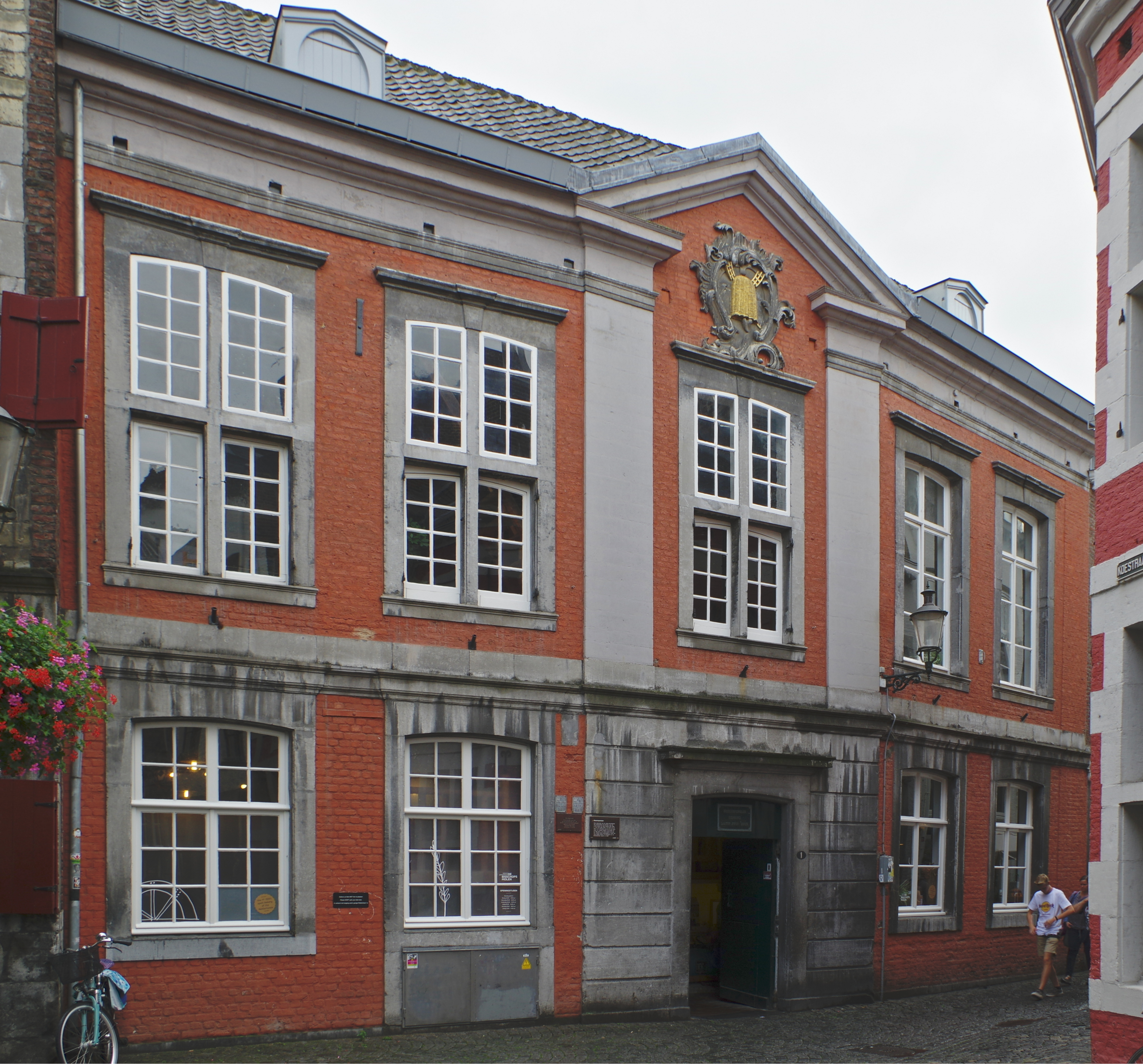 Maastricht, Bisschopsmolen